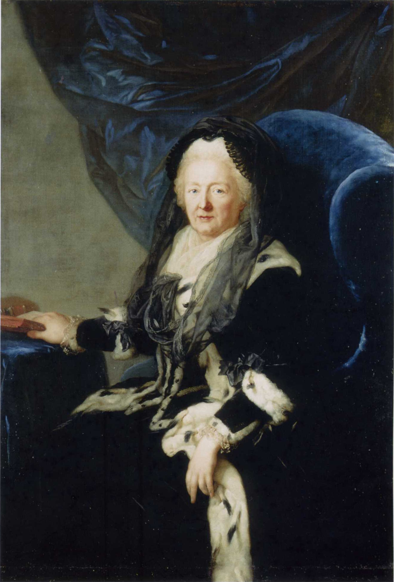 Queen Elisabeth Christine in Widow's Weeds